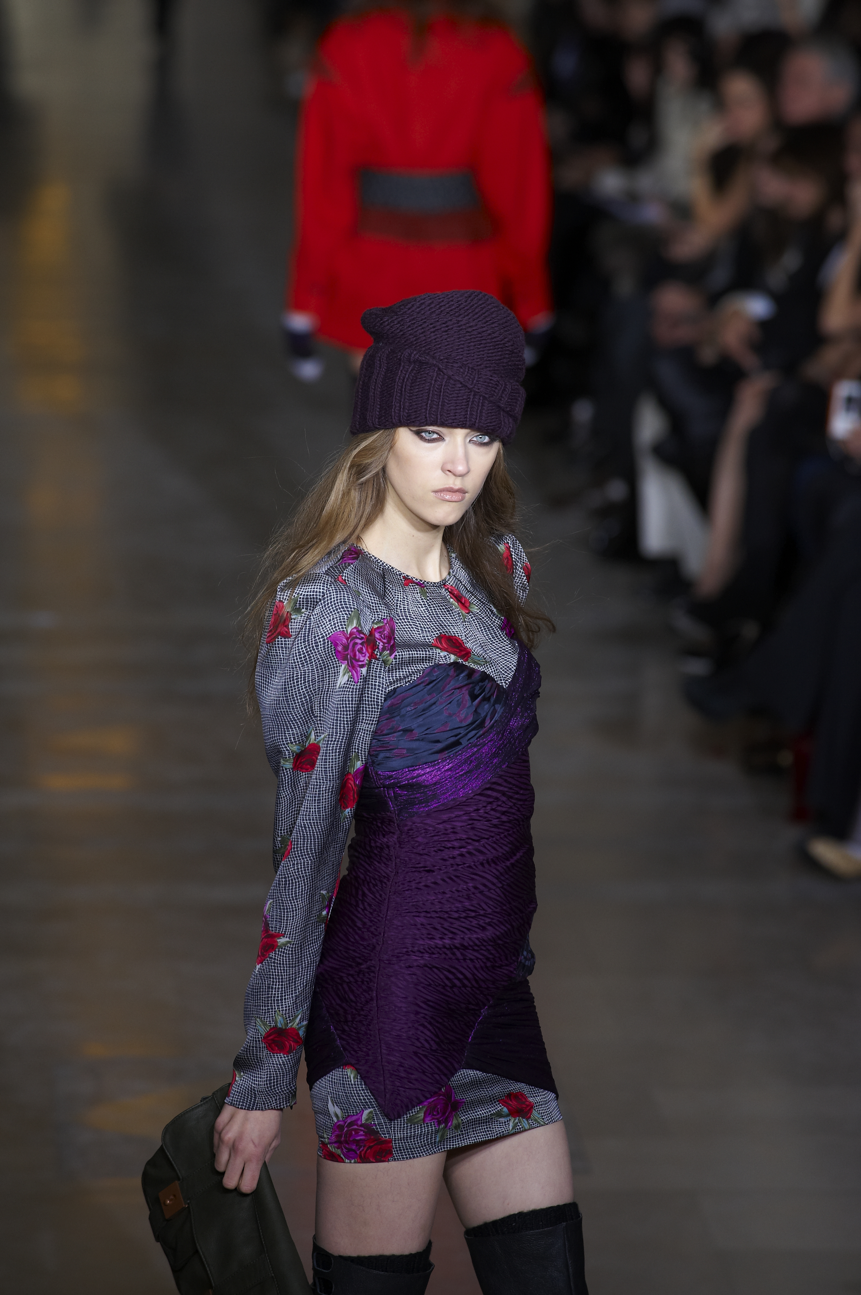 A model walks the runway at the Jill Stuart Fall/Winter 2010 show at New York Fashion Week, February 2010.